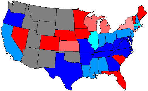 Summary of party control of U.S. house seats in the 44th United States Congress following election. Stripes indicate a tie between two or more parties. Legend: 80.1-100% Democratic seat majority 60.1-80% Democratic seat majority 60% or less Democratic seat plurality 60% or less Republican seat plurality 60.1-80% Republican seat majority 80.1-100% Republican seat majority